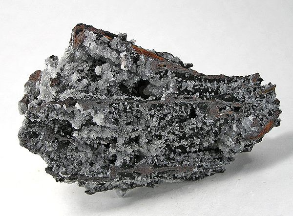 Smithsonite, Coronadite Locality: Broken Hill South Mine (BHS Mine), Broken Hill, Yancowinna County, New South Wales, Australia (Locality at ) Size: 11.2 x 6.8 x 4.3 cm. The bark-like matrix of iron-rich coronadite here is covered with a rich druse of lozenge-shaped, doubly-terminated little light dove-grey crystals of smithsonite. The smithsonites cover the matrix all the way around, and on top and bottom - it was obviously loose in the pocket, allowing the crystals to grow all over it. Classic Broken Hill locality! Ex. William Hiss Collection.